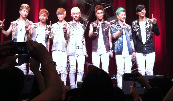 Left to right: Sungmin, Hyojun, Yunyoung, Jaehyung, Hyeongkon , Seungjin, Seungyeop